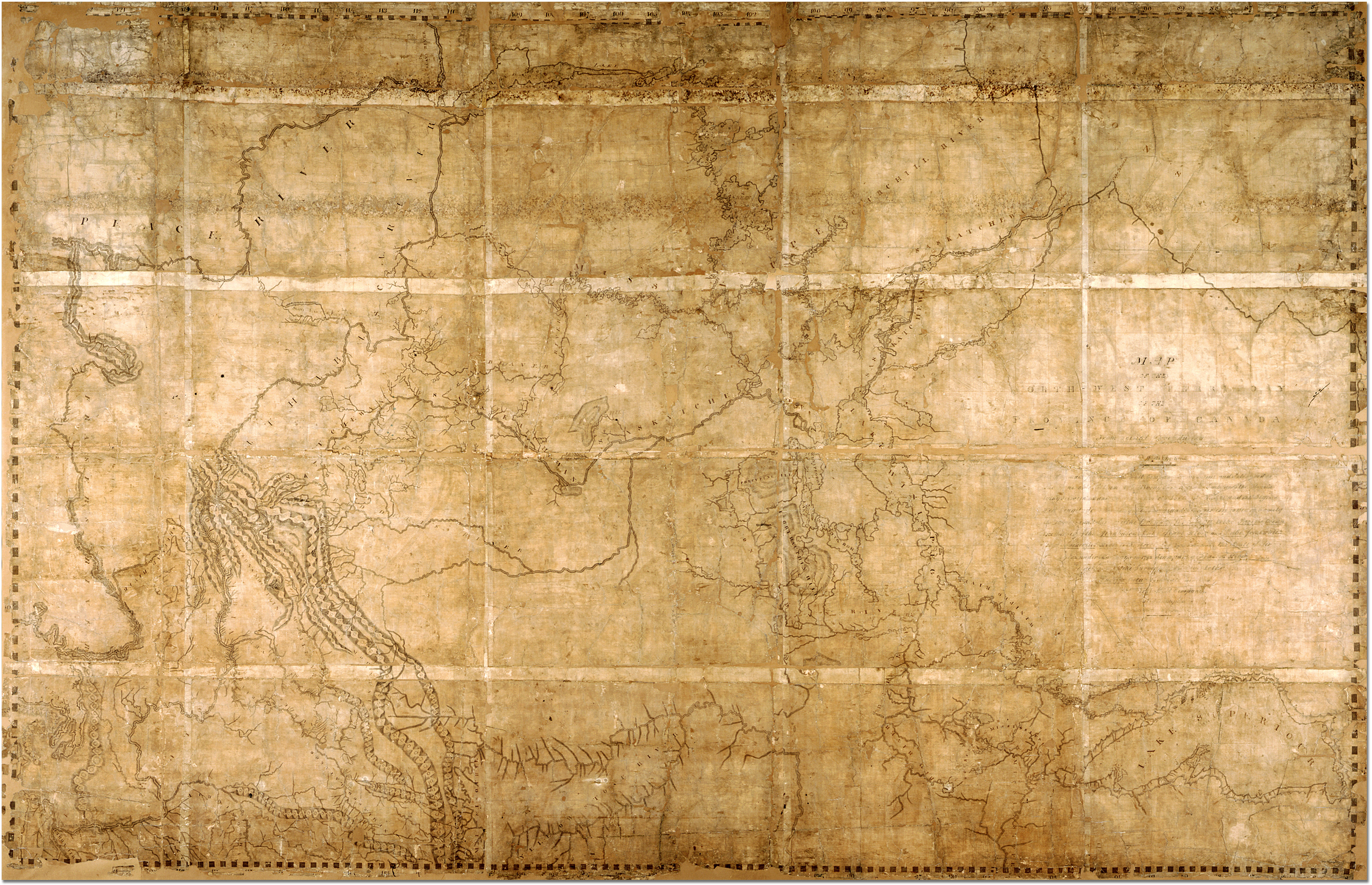 Map of the North-West Territory of the Province of Canada by David Thompson, 1814 Archives of Ontario, I0012850 Map is in the public domain. Full Title: "Map of the North-West Territory of the Province of Canada from actual Survey during the years 1792-1812. This map made for the North West Company in 1813 and 1814 and delivered to the Honorable William McGillivray then agent Embraces the Region lying between 45 and 60 degrees North Latitude and 84 and 124 degrees West Longitude comprising the Survey's and Discoveries of 20 years namely the Discovery and Survey of the Oregon Territory to the Pacific Ocean the Survey of the Athabasca Lake Slave River and Lake from which flows Mackenzie's River to the Arctic Sea by Mr. Philip Turner the Route of Alexander Mackenzie in 1792 down part of Fraser's river together with the Survey of this River to the Pacific Ocean by the late John Stuart of the North-West Company by David Thompson Astronomer and Surveyor."